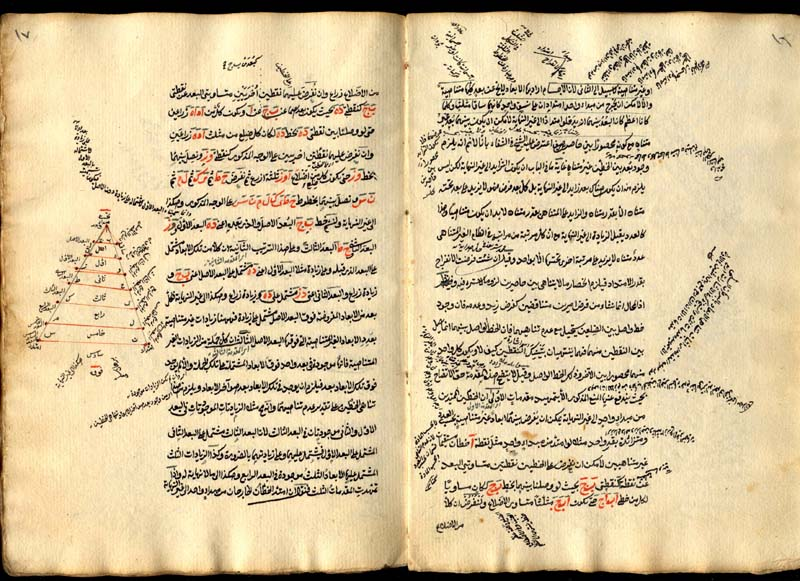 A Manuscript of al-Maybudi's, Arabic, copied in 1058 H.E. Private collection.